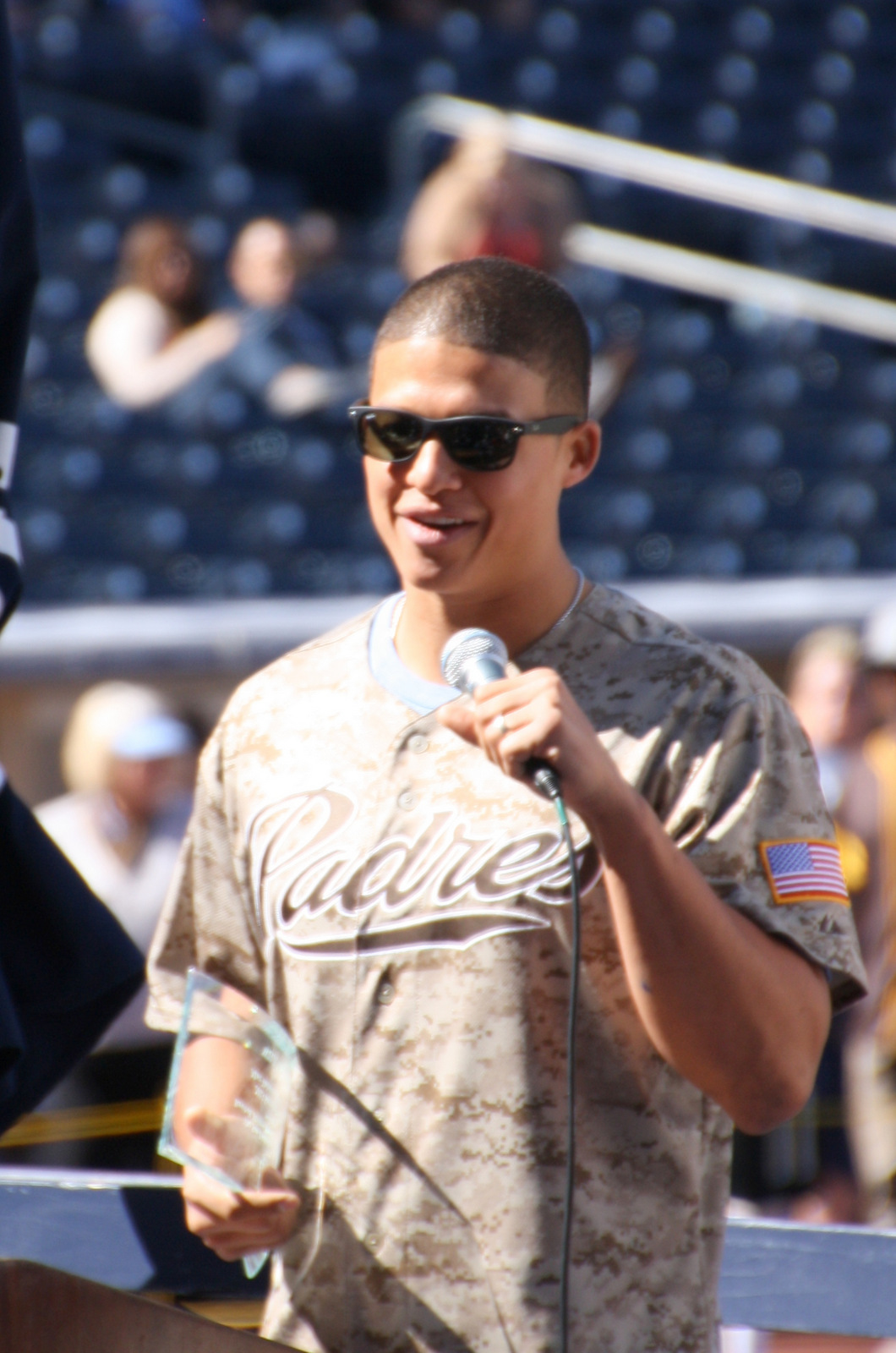 Will Venable of San Diego Padres with 2013 Padres Most Valuable Player award at 2014 Padres Fan Fest